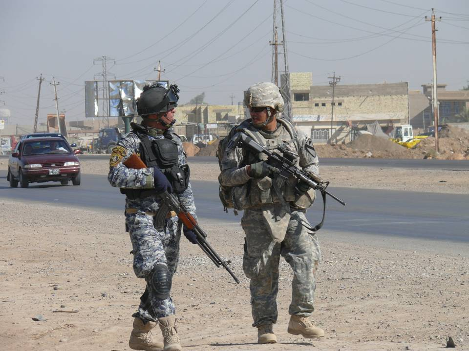 BAGHDAD-Milpitas, Calif. native Spc. Glenn Escano (right), 1st Squadron, 7th U.S. Cavalry Regiment, 1st Brigade Combat Team, 1st Cavalry Division, chats with an Iraqi policeman from the 1st Battalion, 2nd Brigade, 1st Federal Police Division, while sweeping a highway for improvised explosive devices. The combined air assault force swept three separate urban stretched of the Baghdad-Diyala highway in just a few hours.